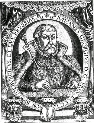 John George, Elector of Brandenburg (1525-98) Not Frederick V